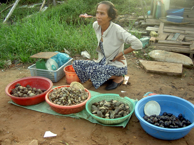 Sale of shellfish at the roadside, Phu Quoc